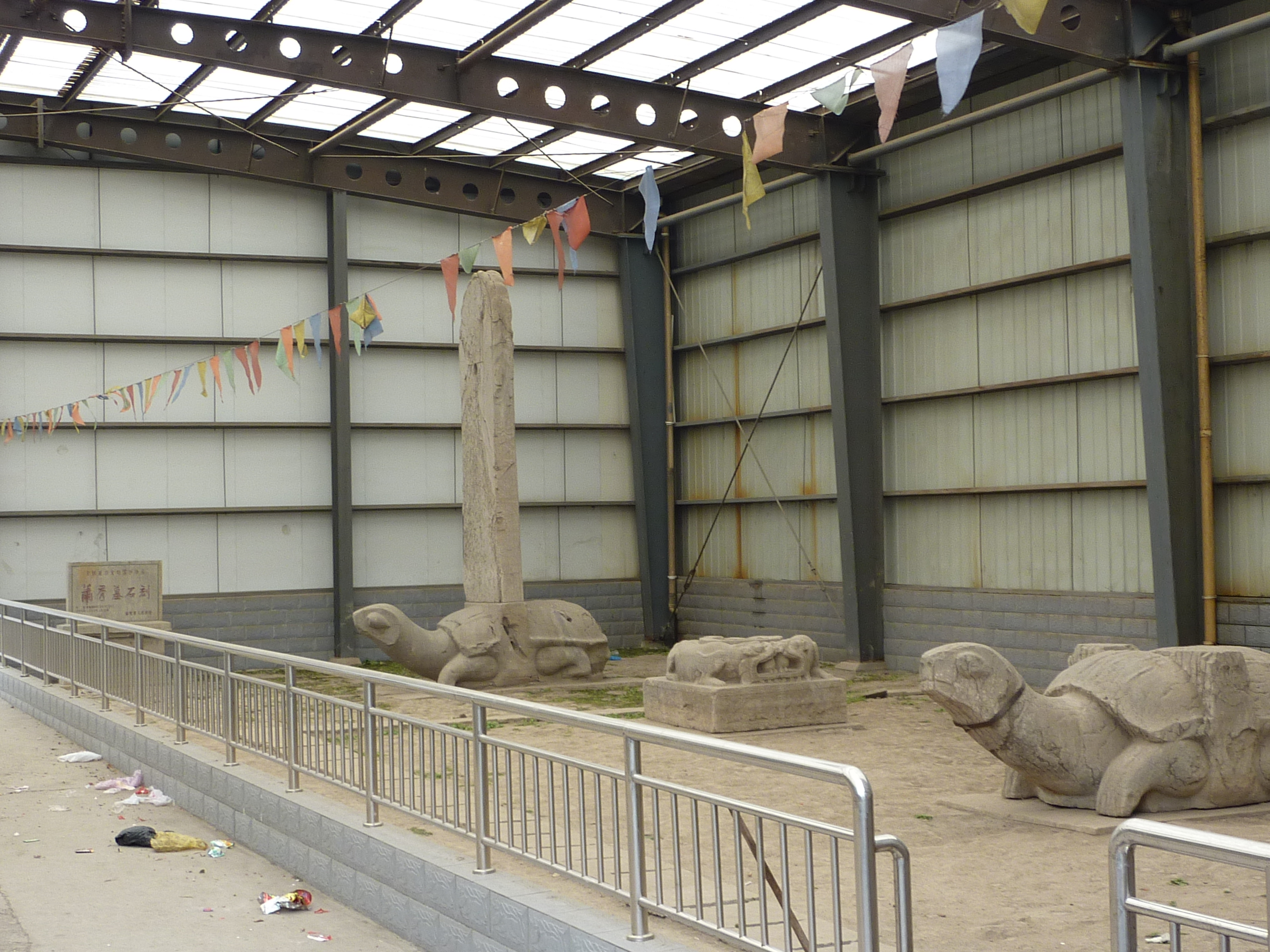 The shendao (stone figures along a path) of Xiao Xiu. They are now in the covered schoolyard, and can be seen from the schoolyard's outer gate, which is at the southern end of the path.